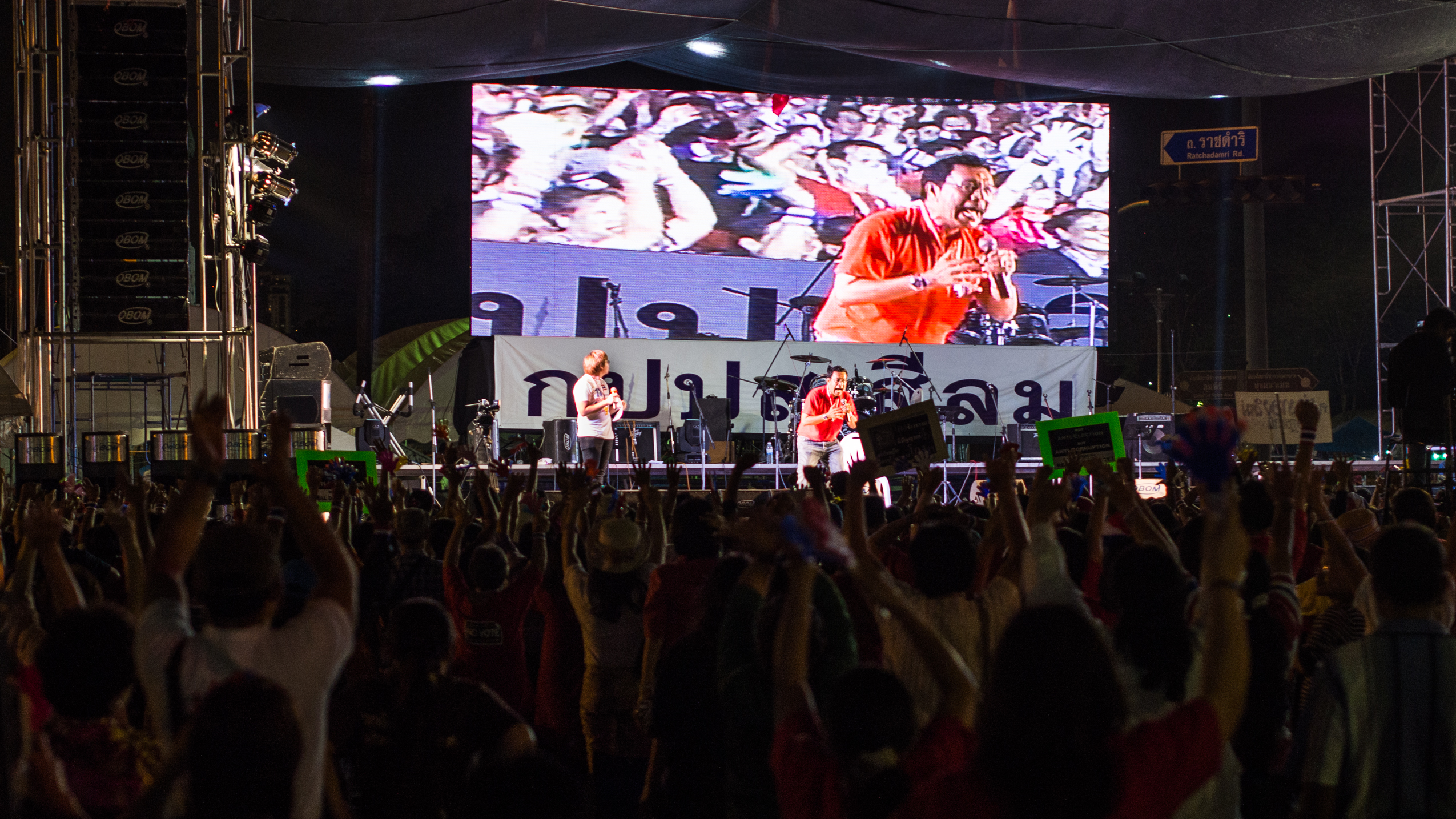 A crowd of anti-government protesters the day before the scheduled elections at the intersection of Silom road and Rama 4 road.